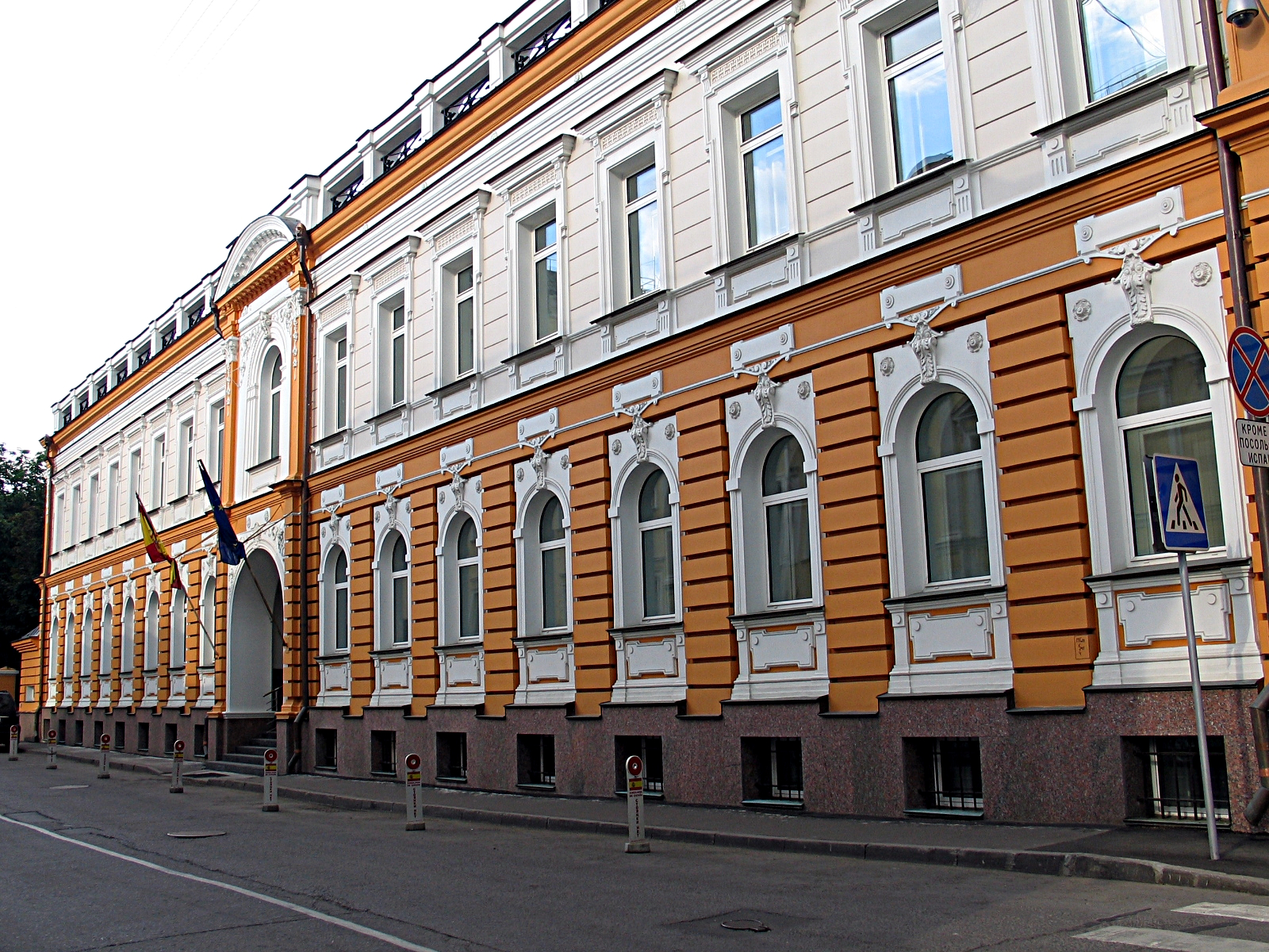 Embassy of Spain in Moscow (Bolshaya Nikitskaya Street, 50/8)